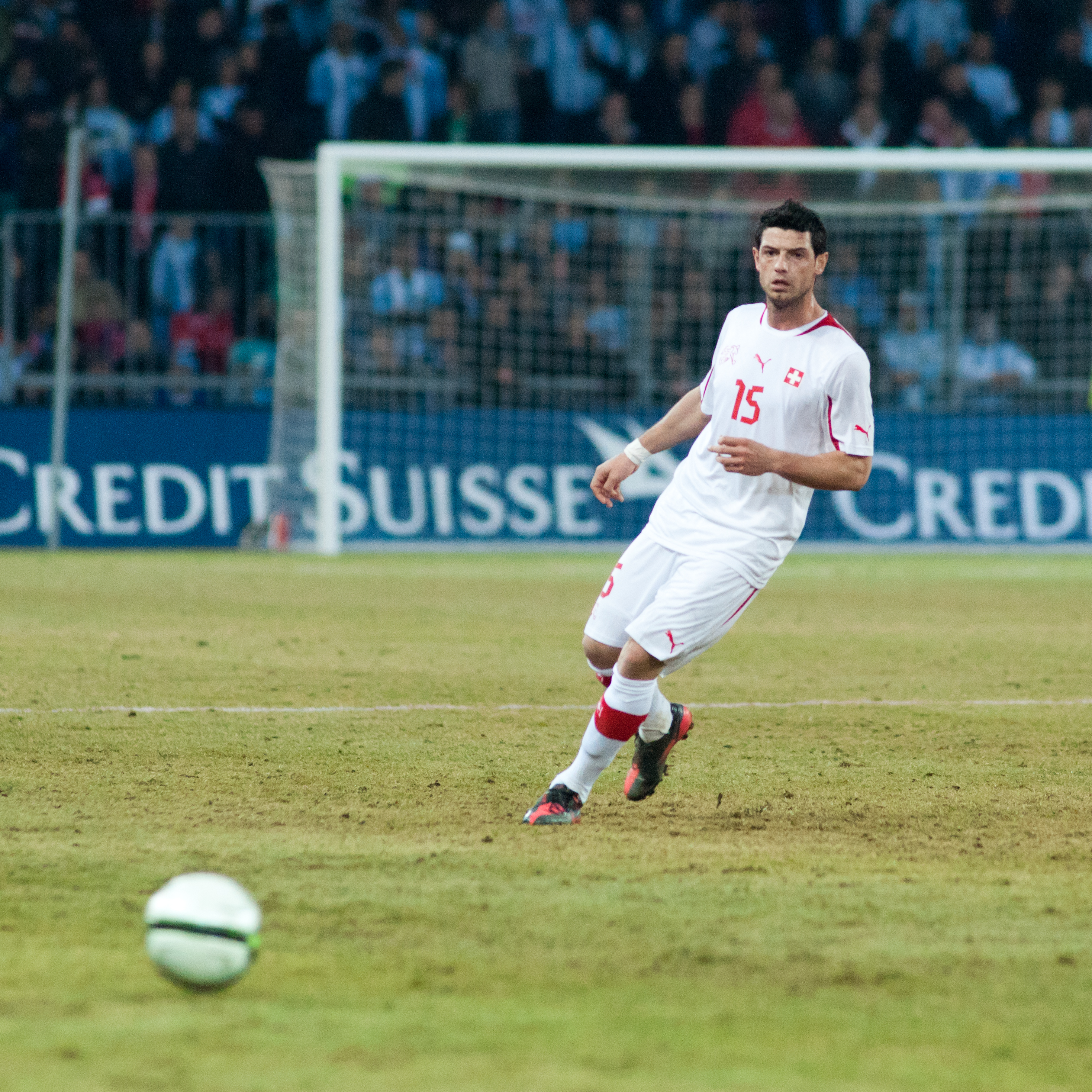 The making of this document was supported by Wikimedia CH.(Submit your project!) For all the files concerned, please see the category Supported by Wikimedia CH. Switzerland vs. Argentina, 29th February 2012